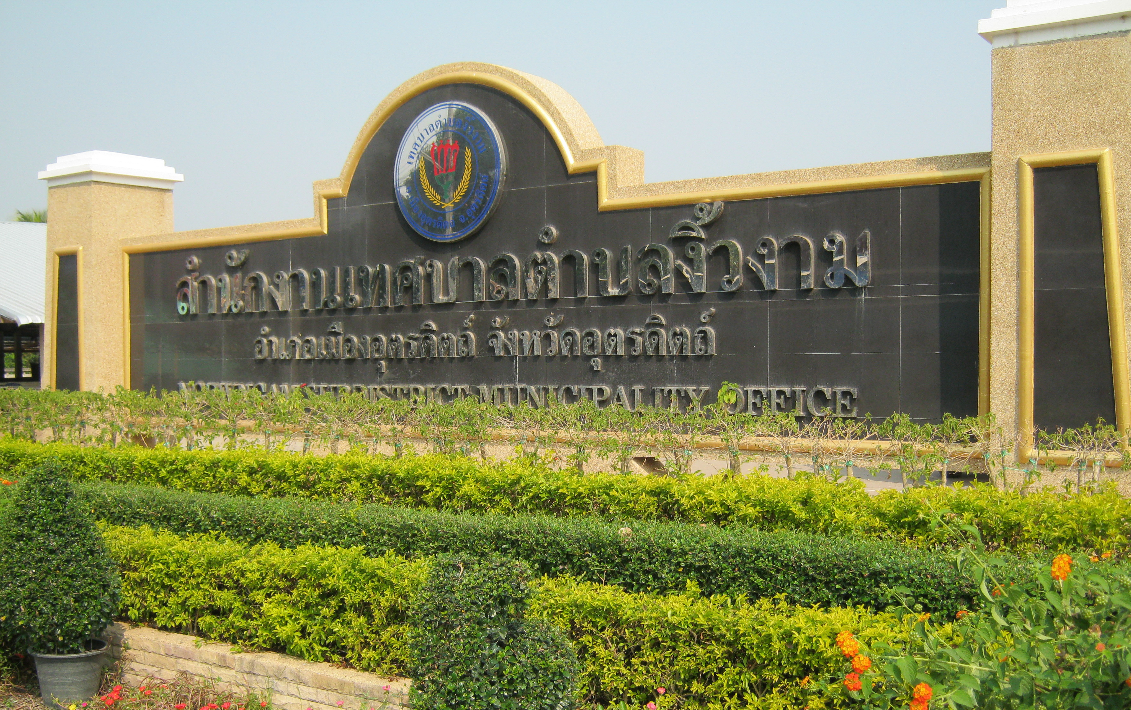 Ban Ngew-Ngam